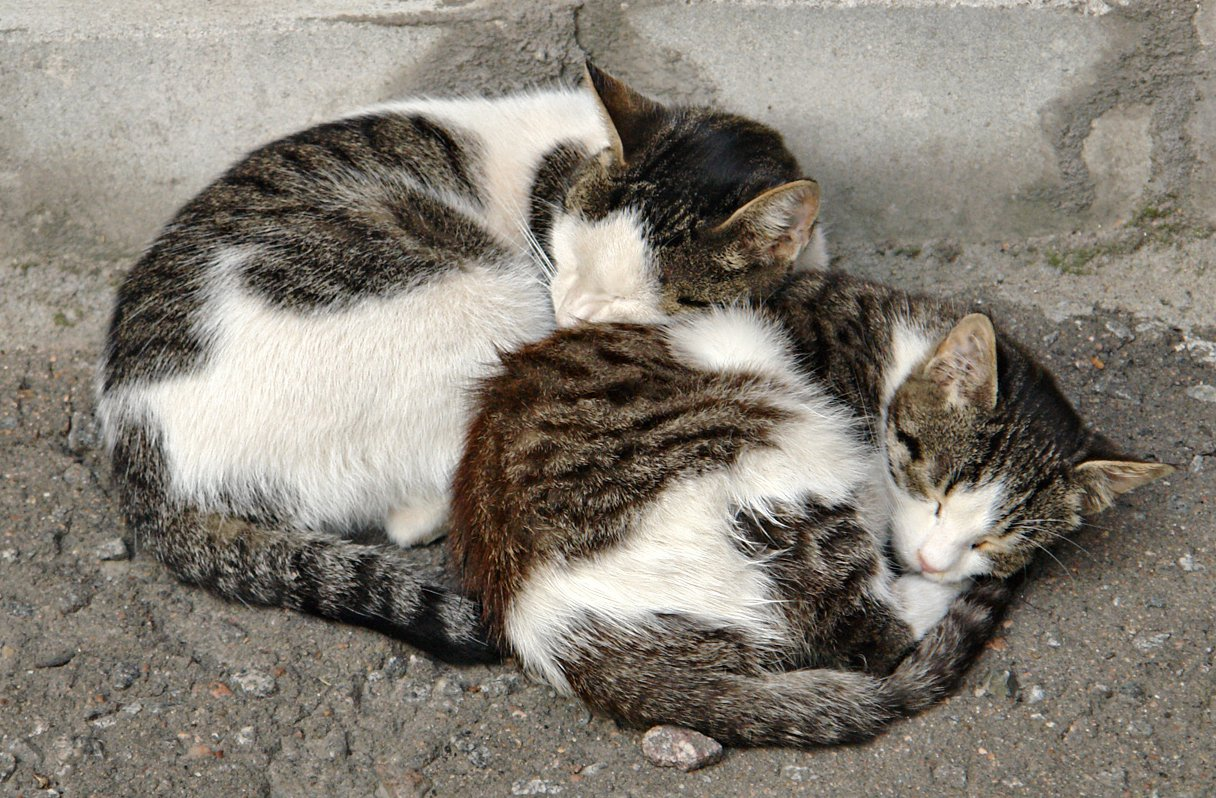 Two Russian street cats sleeping. (crop from original by George Shuklin)